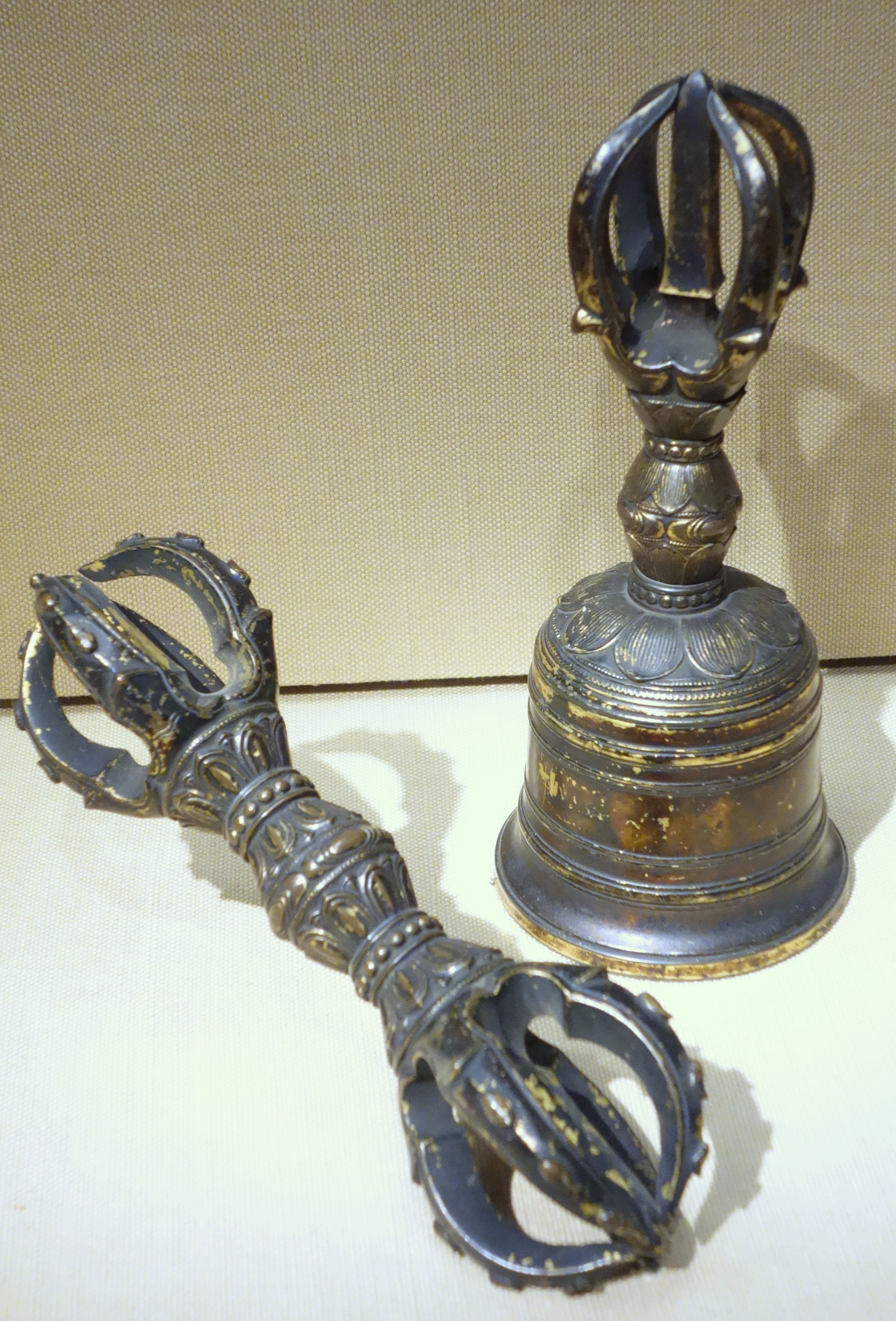 Exhibit in the Asian Art Museum of San Francisco, San Francisco, California, USA. This artwork is in the public domain because the artist died more than 70 years ago.